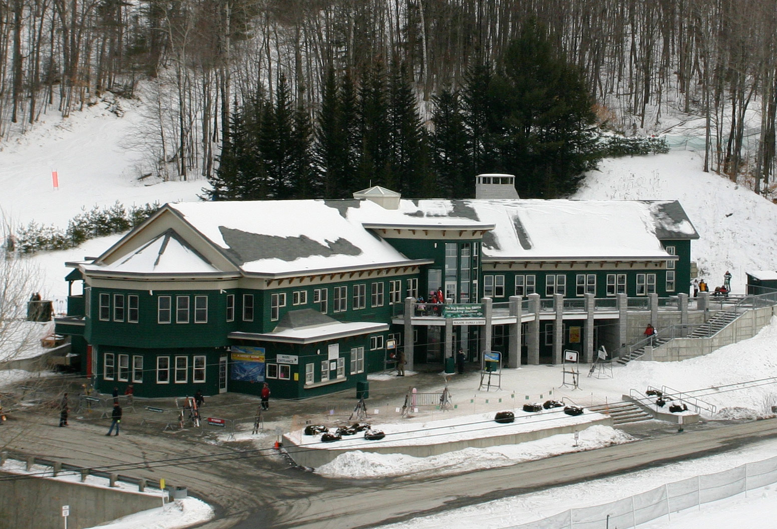 Photograph of McLane ski lodge at the Dartmouth Skiway